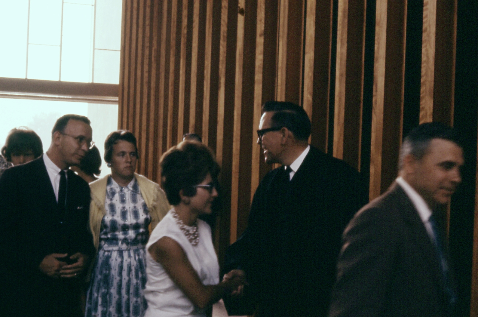 The Rev. Robert Schuller, greeting parishioners at the conclusion of Sunday Services at the Garden Grove Community Drive-In Church, July, 1962. The parishioner in the black suit with the glasses is Fred Kirms, and the parishioner in the printed dress is his wife, Marilyn. Taken with an Exakta VX SLR camera, using 35mm Ektachrome slide film.